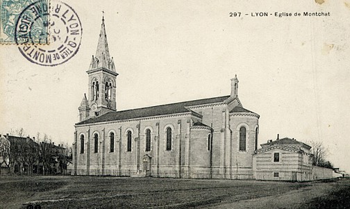 View of the whole church for the extension of the nave and it's apse by a three-quarter angle back ant west.